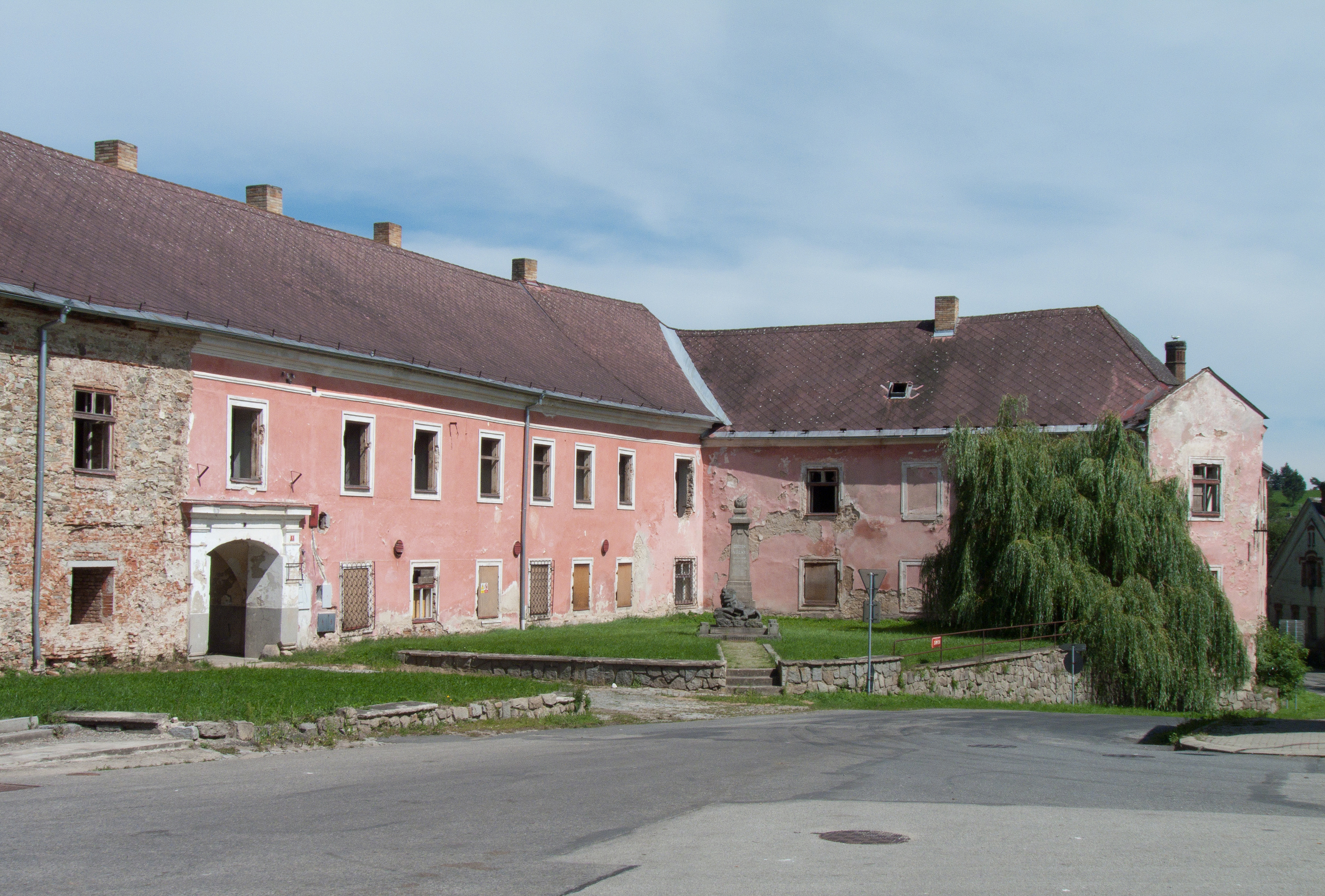 Chateau in the town of Nová Včelnice, Jindřichův Hradec District, Czech Republic